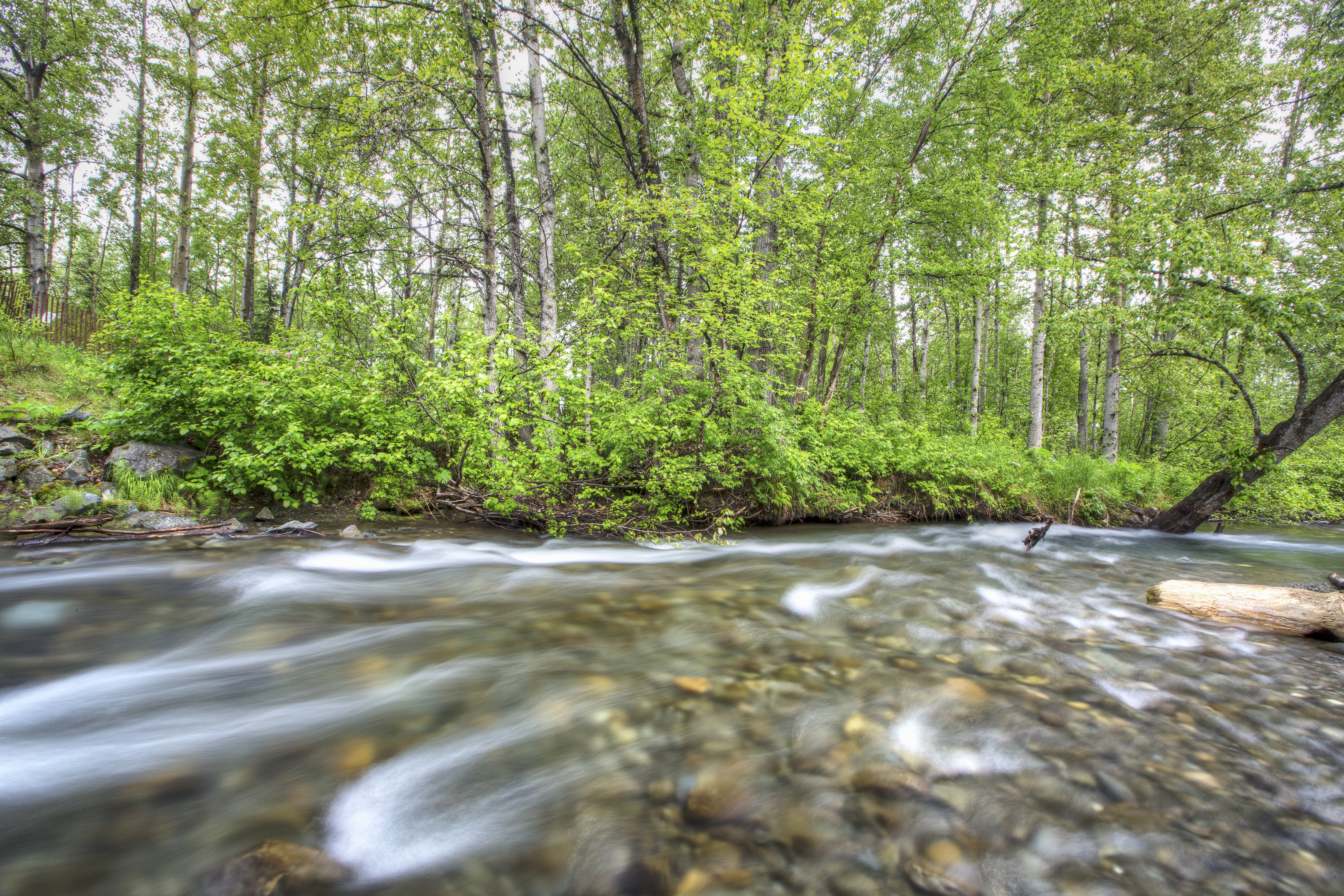 The BLM Campbell Creek Science Center, located in the heart of Anchorage on the BLM Campbell Tract, is an outdoor science education center for people of all ages that encourages interest and participation in the balanced management of natural resources. The BLM Campbell Creek Science Center provides educational opportunities for adults, children, and families as well as meeting space for various groups. The Center offers students of all ages the chance to learn in the outdoor classroom. Visitors have access to creeks, forests, meadows, and a rich abundance of plants and wildlife. Our programs promote awareness, understanding, stewardship, and an appreciation for the natural environment. Learn more: Photos by Bob Wick, BLM